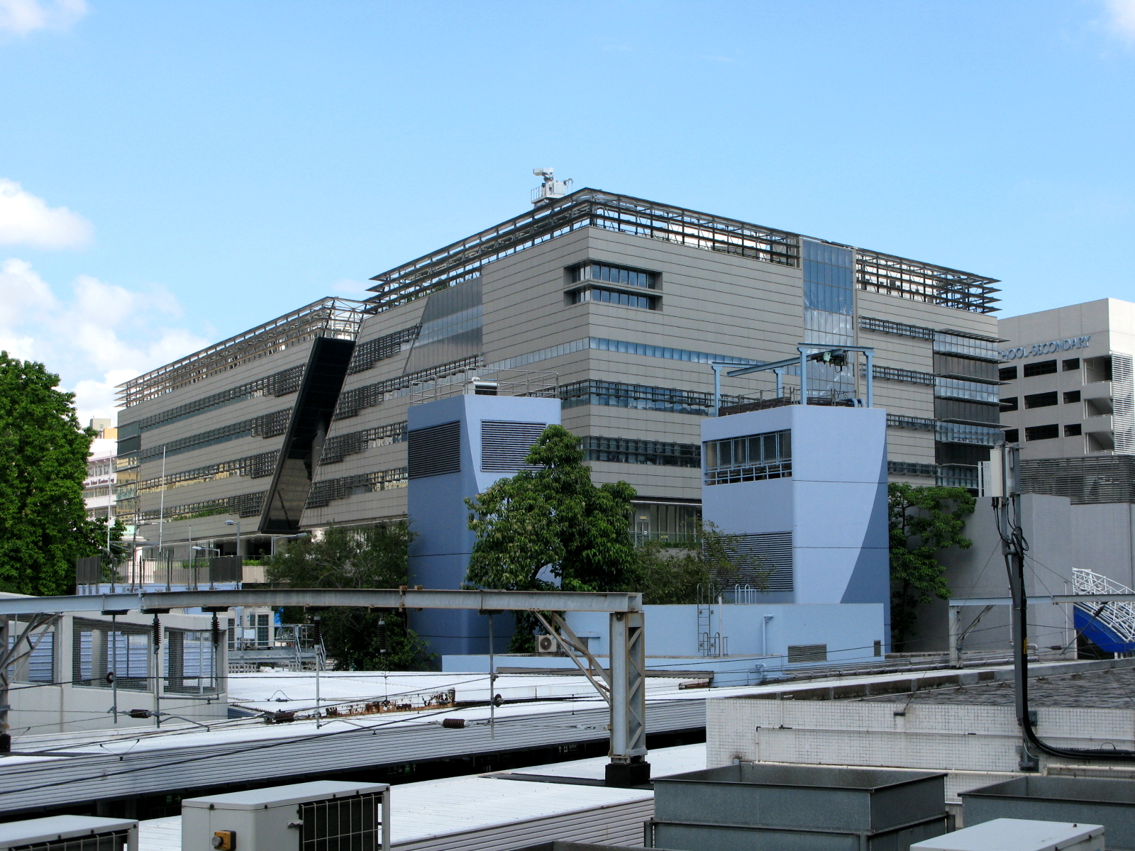 EDB Kowloon Tong Education Services Centre 九龍塘教育服務中心